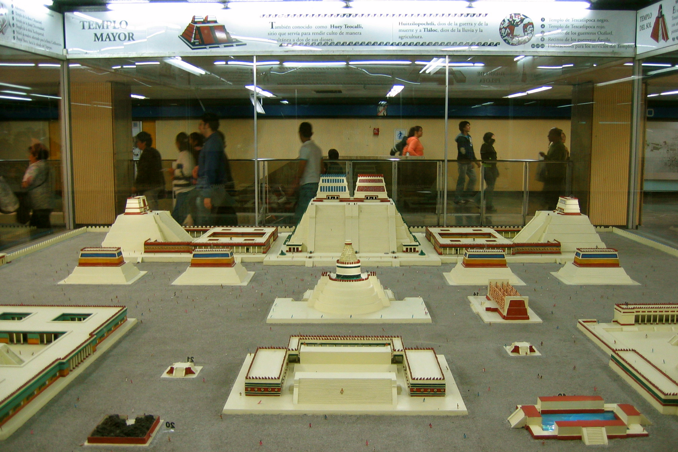 Model of Temple Mayor, prior to Spanish conquest. Mexico City Metro, Zocalo Station.